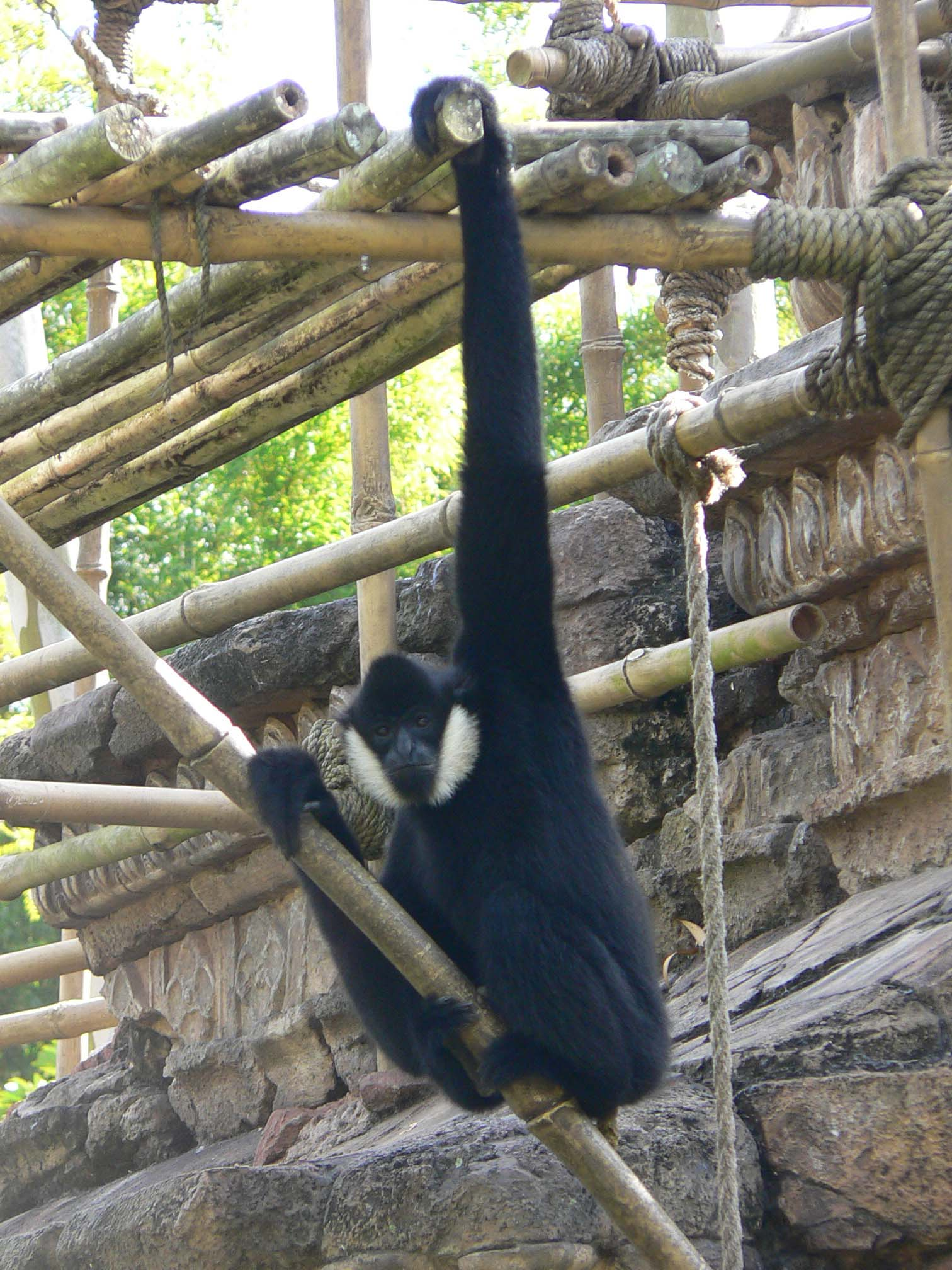 Male White-cheeked Crested Gibbon in Disney's Animal Kingdom.